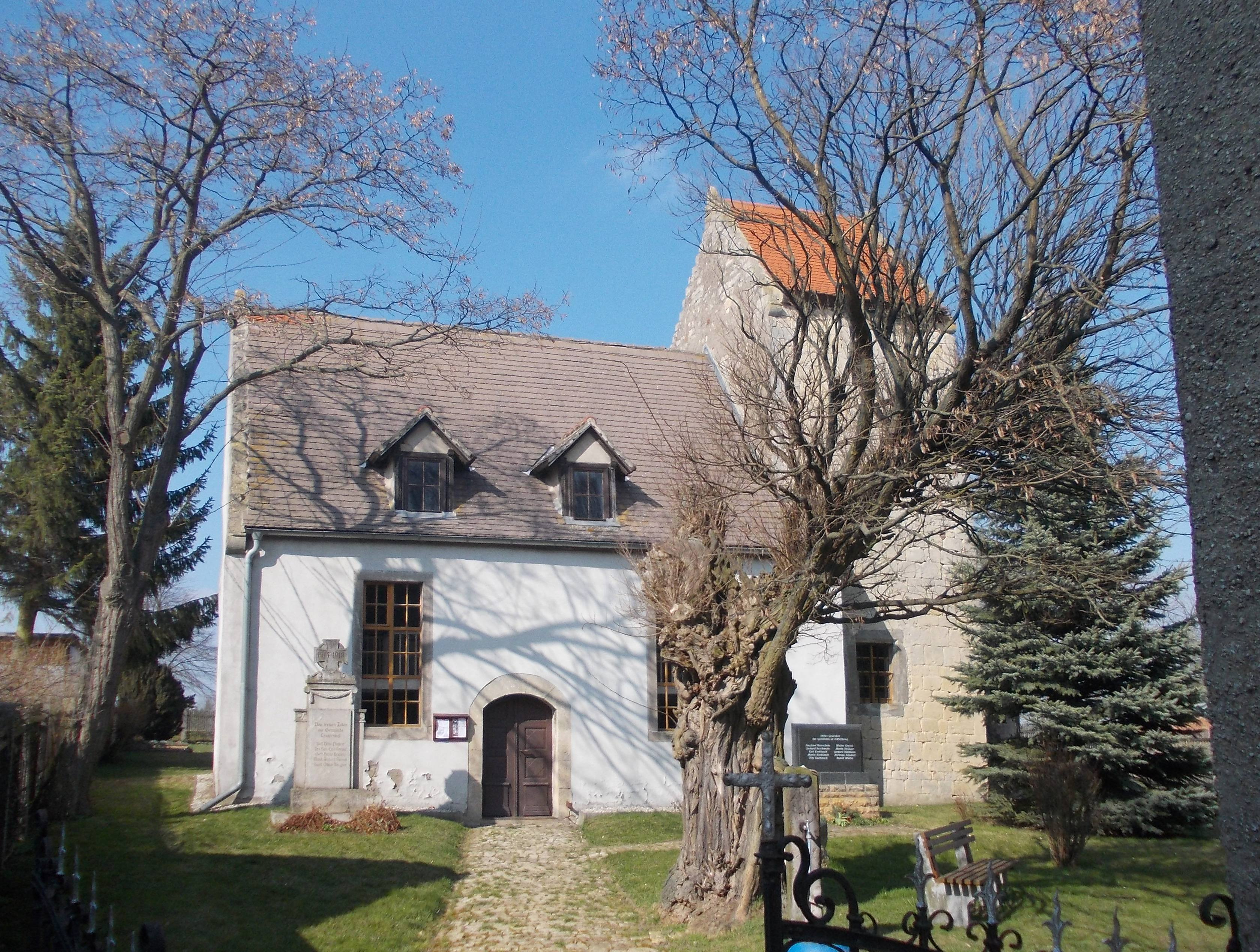 St. George's Church in Krawinkel (Bad Bibra, district: Burgenlandkreis, Saxony-Anhalt)